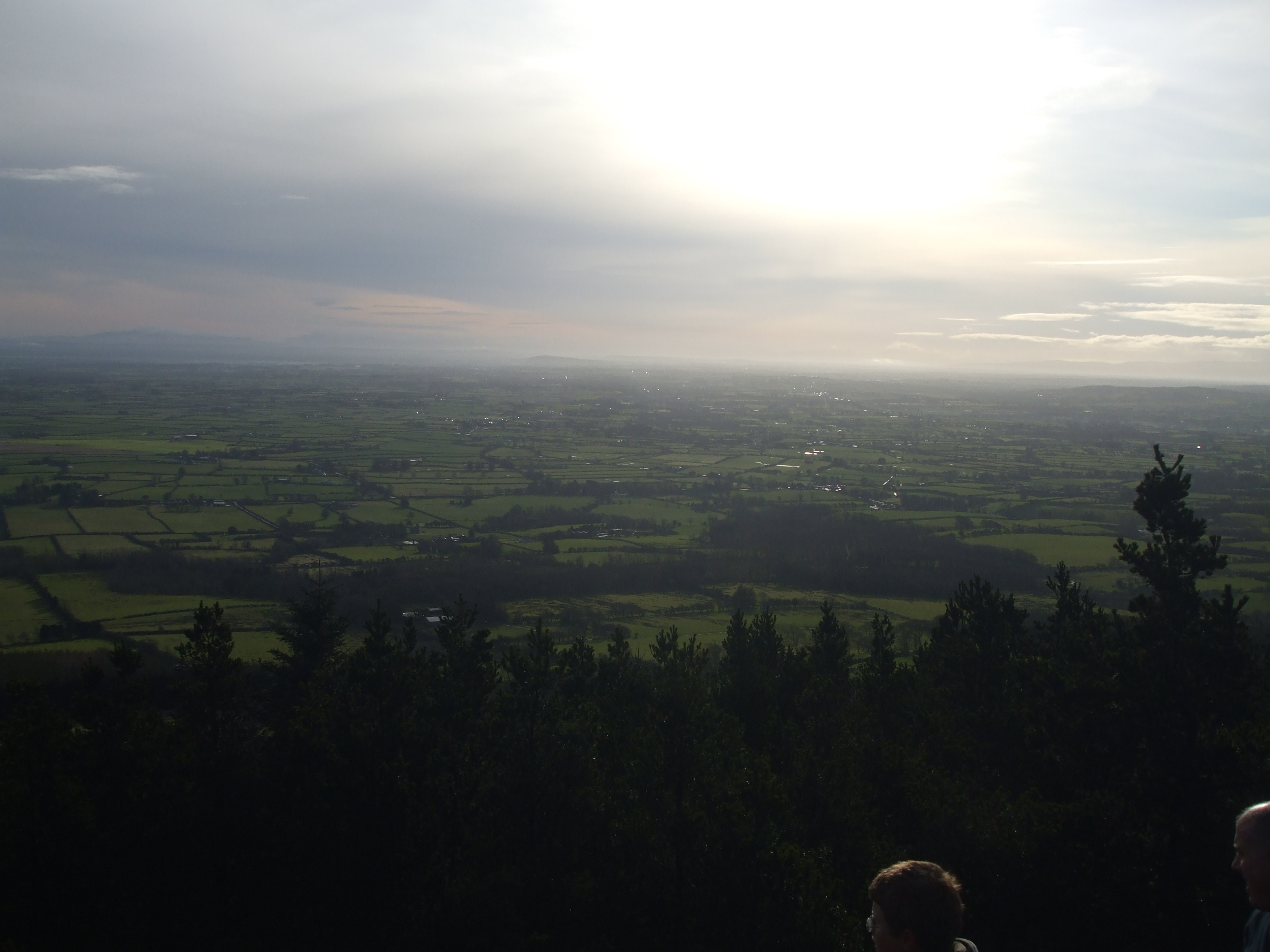 View from Devil's Bit, Co. Tipperary, Ireland